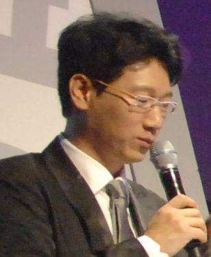 Ji Suk-jin